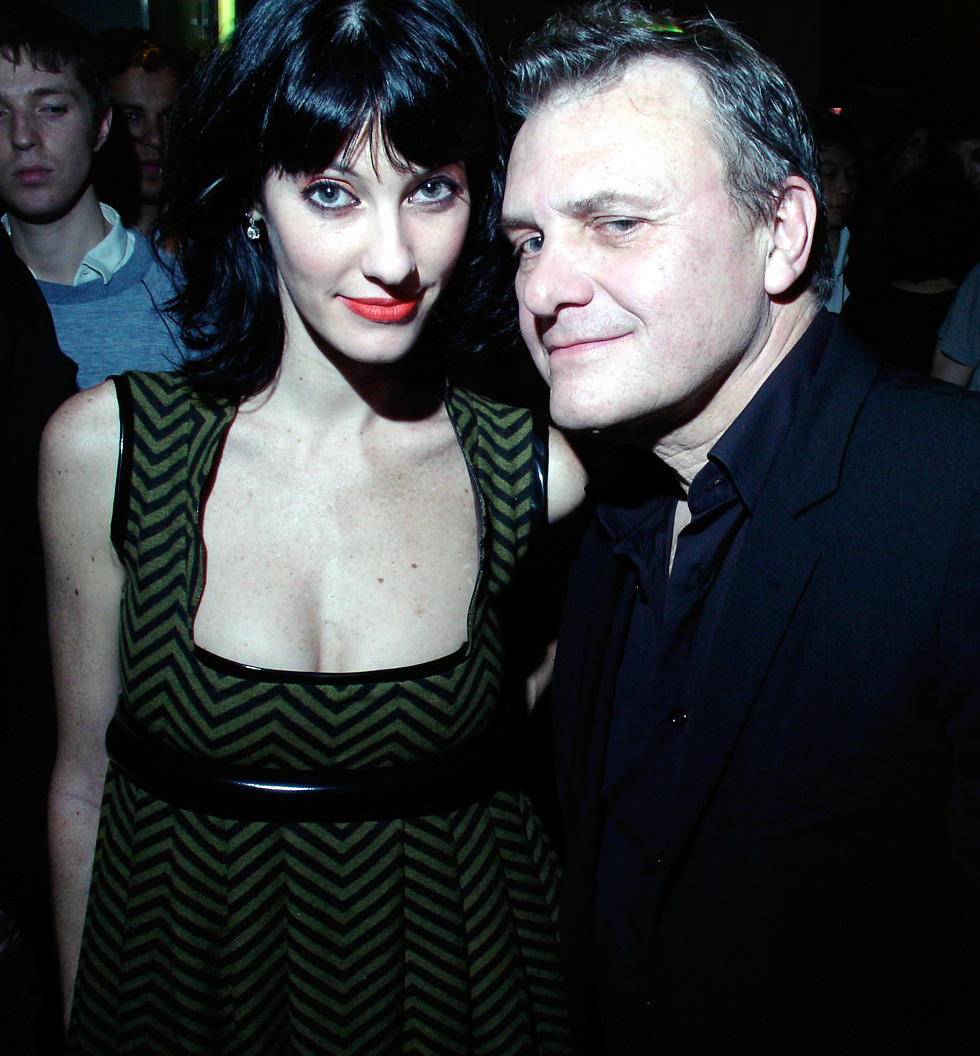 Mareva Galanter, Miss France 1999, and French fashion designer Jean-Charles de Castelbajac